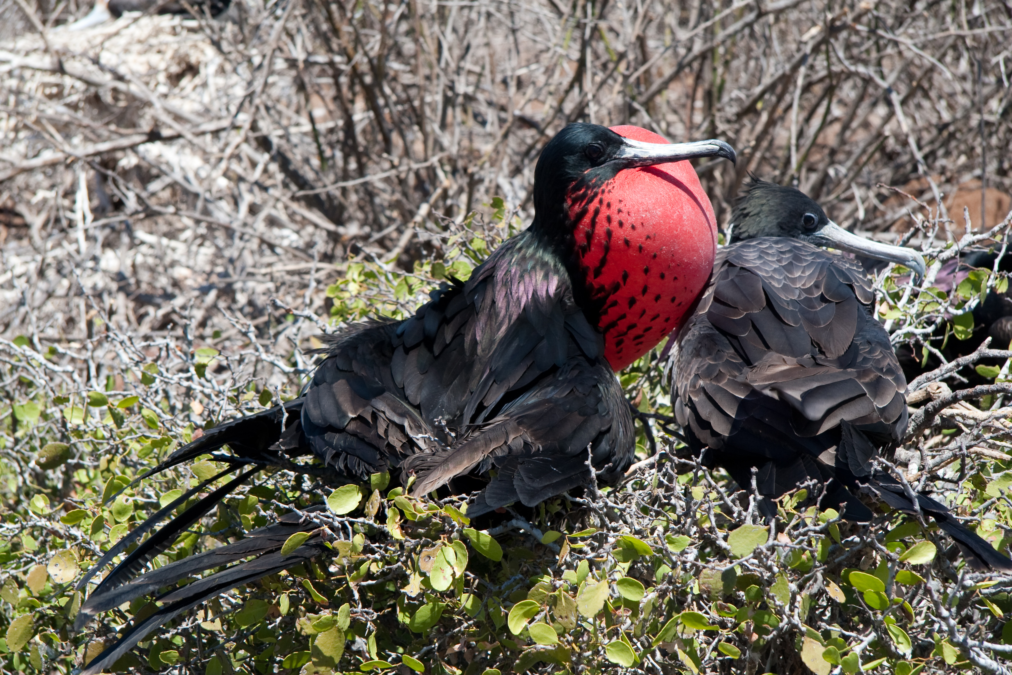 The Magnificent Frigatebird (Fregata magnificens), North Seymour Island, Galápagos, Ecuador.